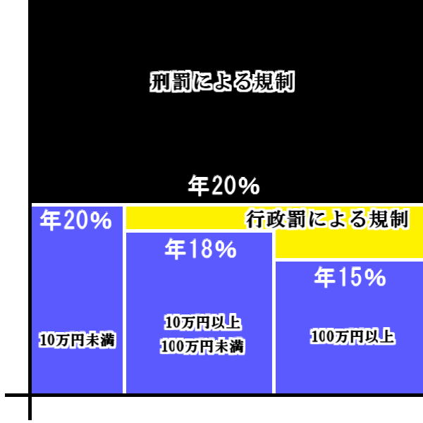 Interest rate regulation